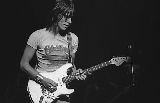 Jeff Beck with guitar